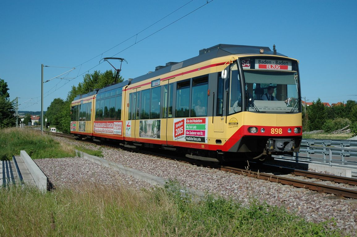 AVG's Car no. 898 of type GT8-100, location: near Eppingen West, train number: E82248.